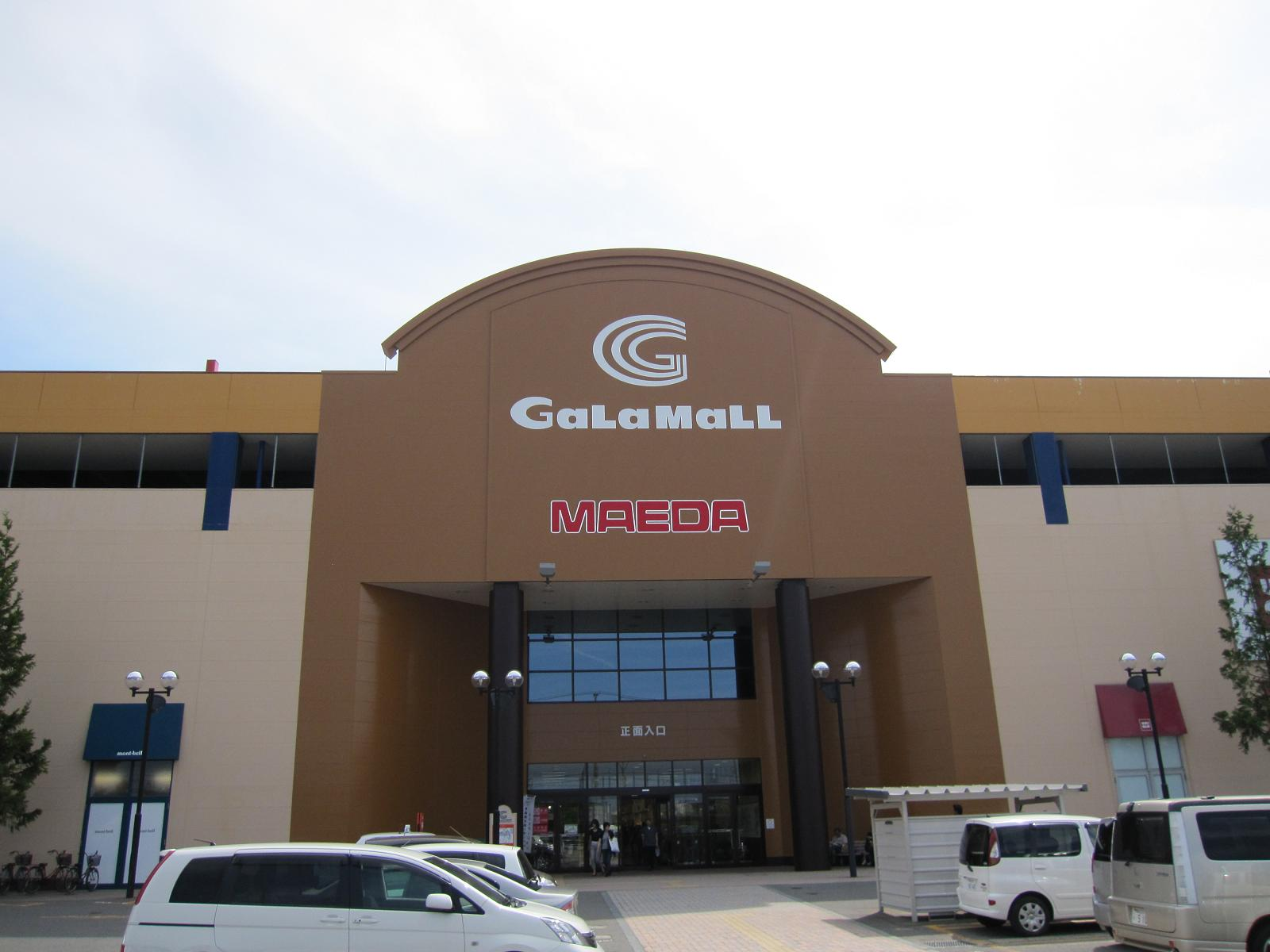 Galamall main entrance